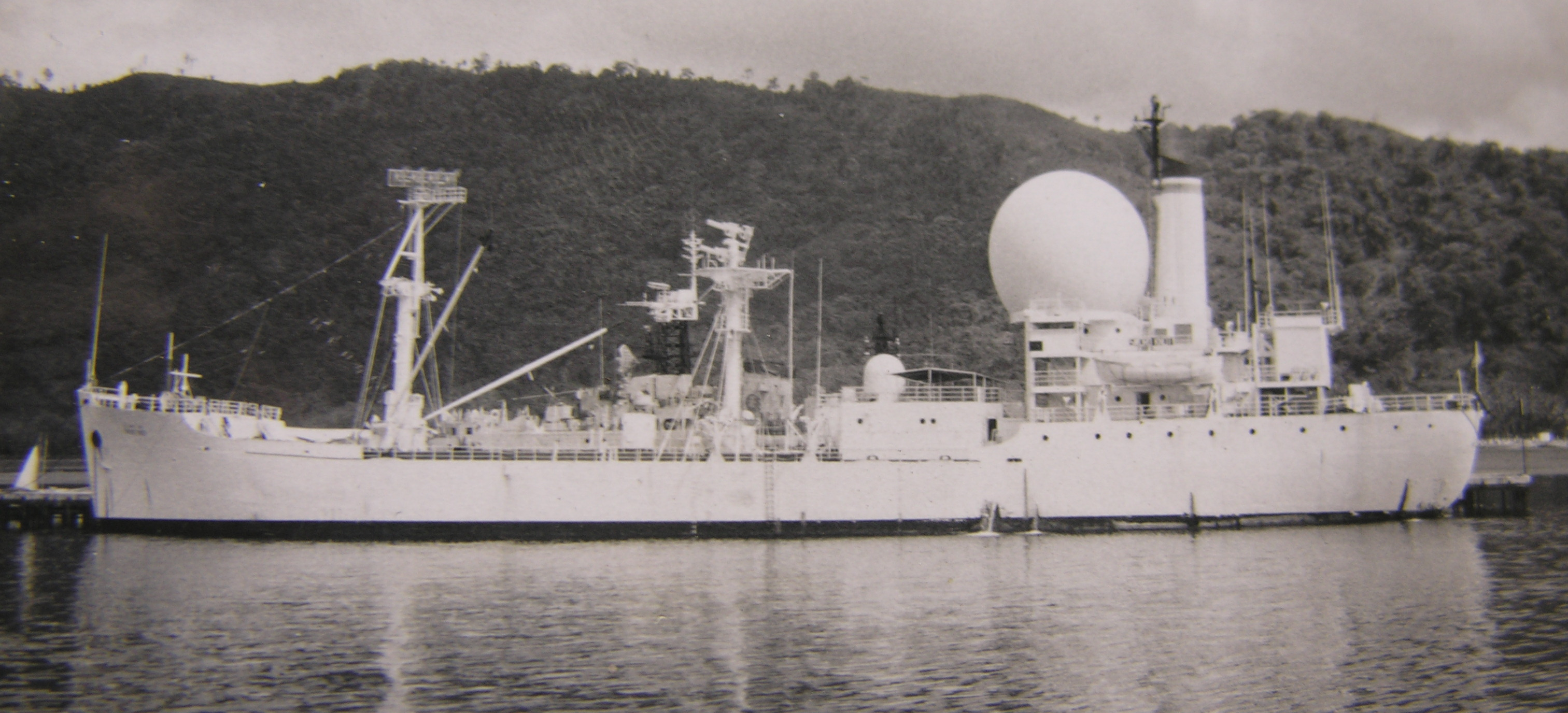 USNS Sword Knot (T-AGM-13) docked in Trinidad.